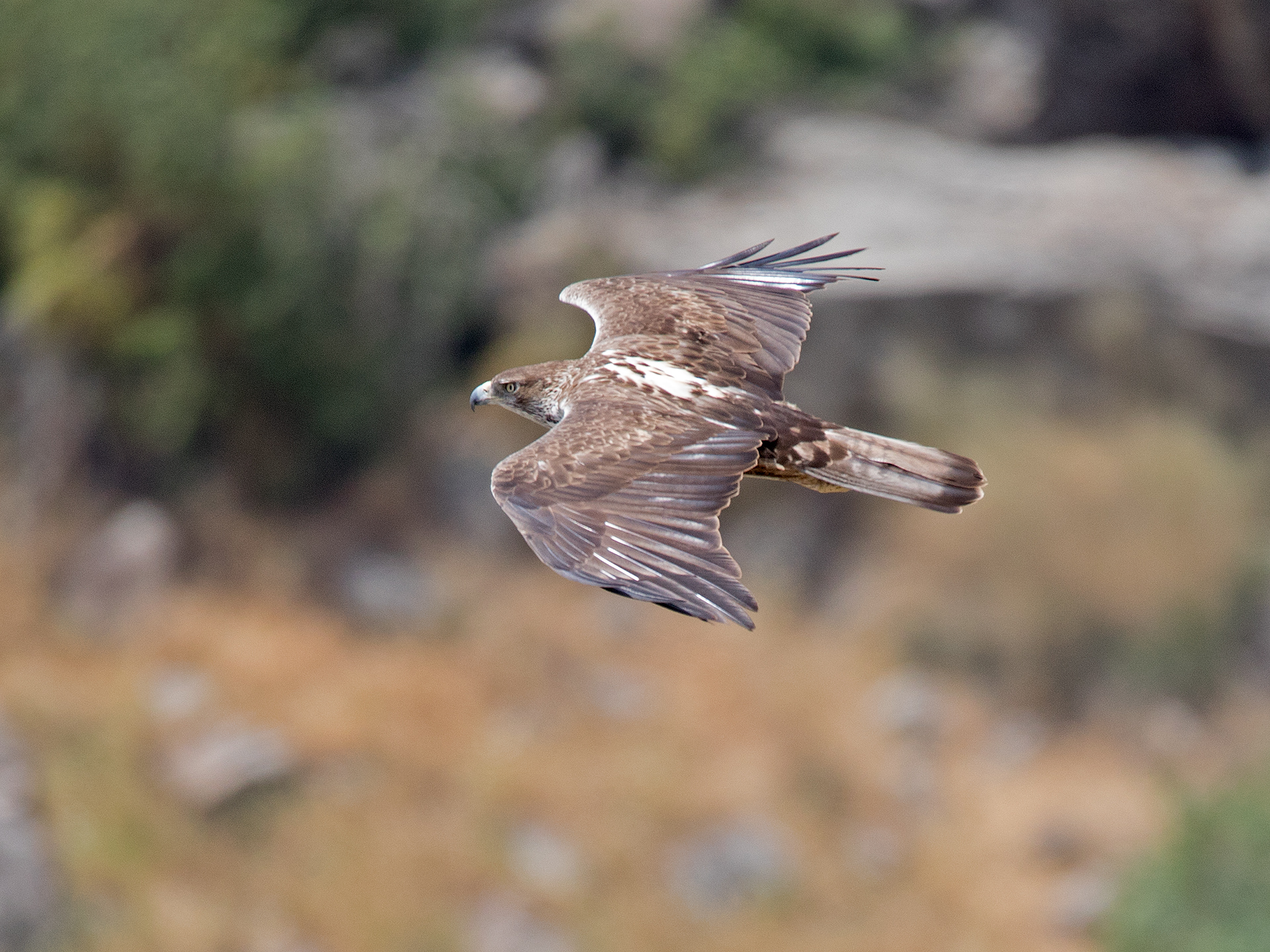 Bonelli's eagle in flight at Gamla nature reserve